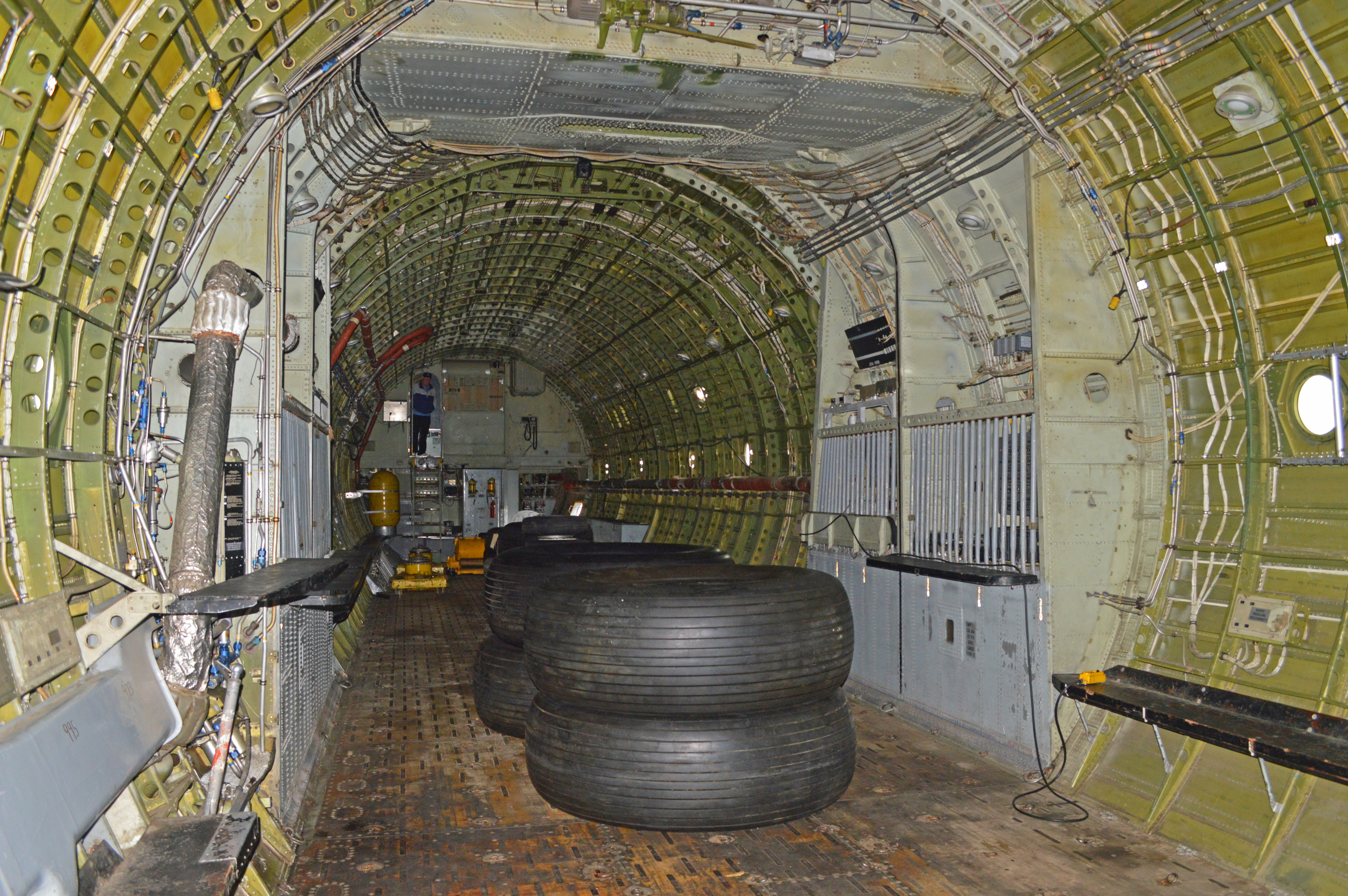 This is view looking forward in the cavernous interior of a Douglas Cargomaster, designed to carry USAF Atlas, Titan or Minuteman ballistic missiles. US military serial 56-1999 and c/n 45164, this example is on display at the Travis AFB Heritage Center, CA. 5th March 2016